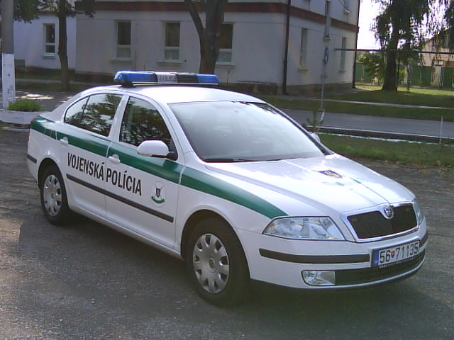 Slovak military police car Škoda Octavia in Trebišov